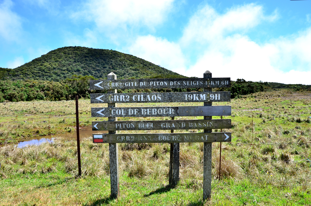 Here intersection: left, trail Piton des Neiges will peak along the Turtle or right, the village of Bourg-Murat